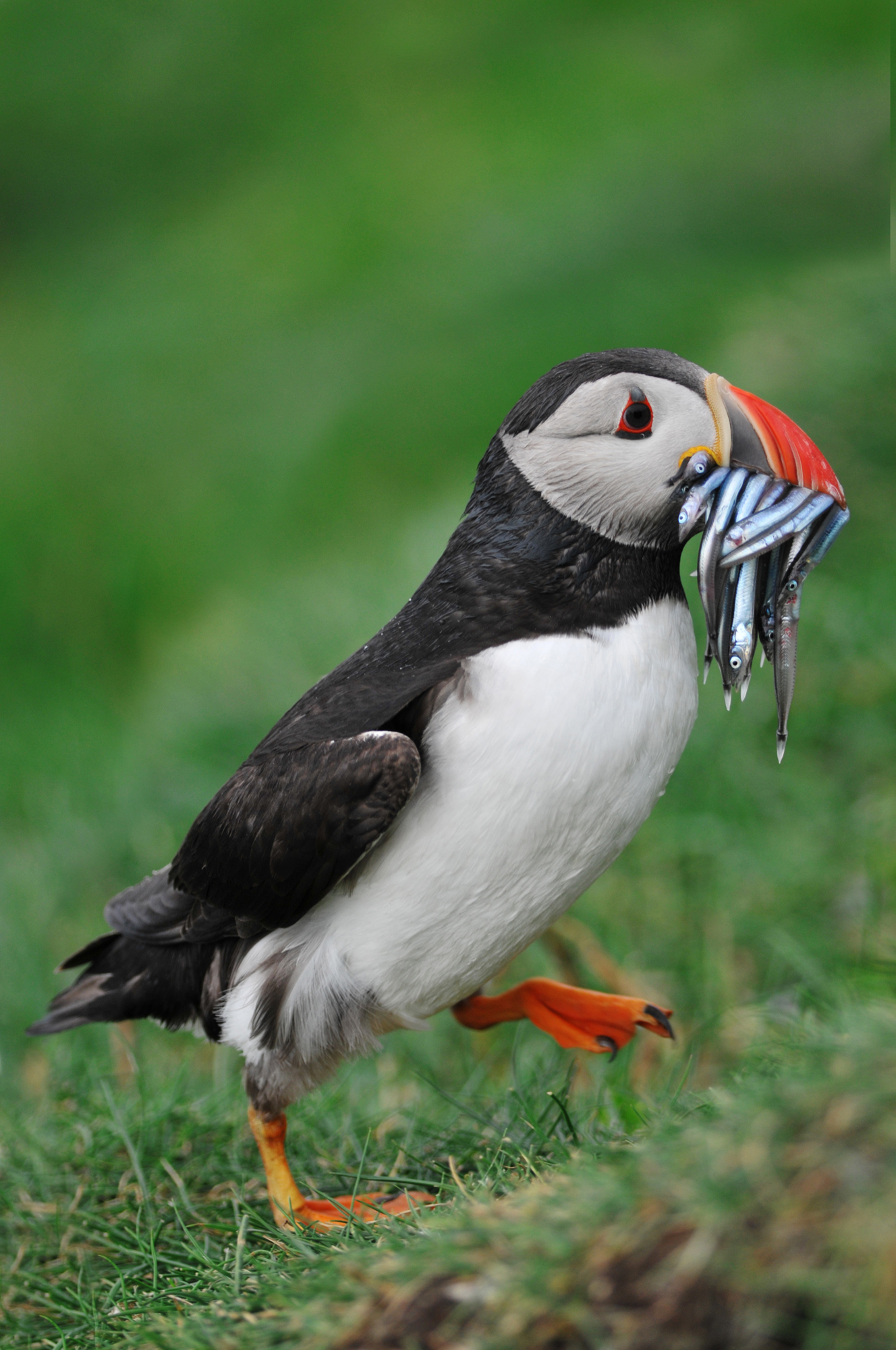 Atlantic Puffin (Fratercula arctica), Faroe Islands